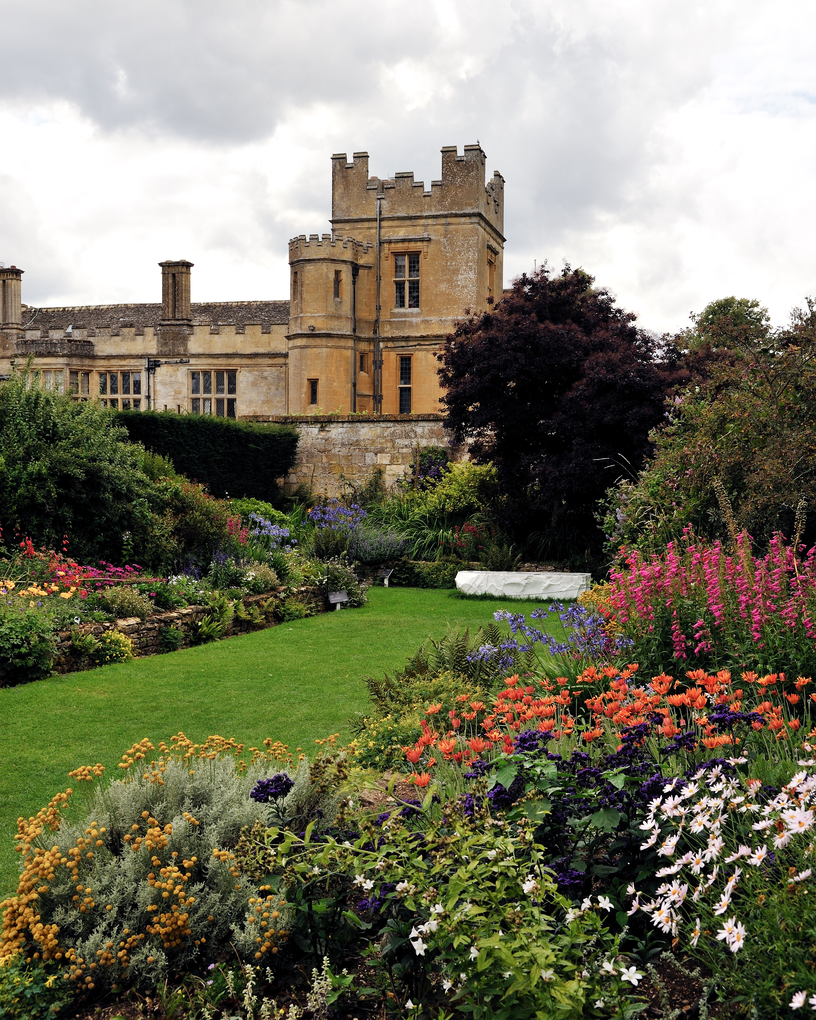 The Secret Garden at Sudeley Castle . Located near Winchcombe, Gloucestershire, England.